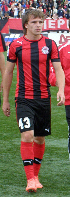 Yevgeni Tyukalov as a player of FC Amkar